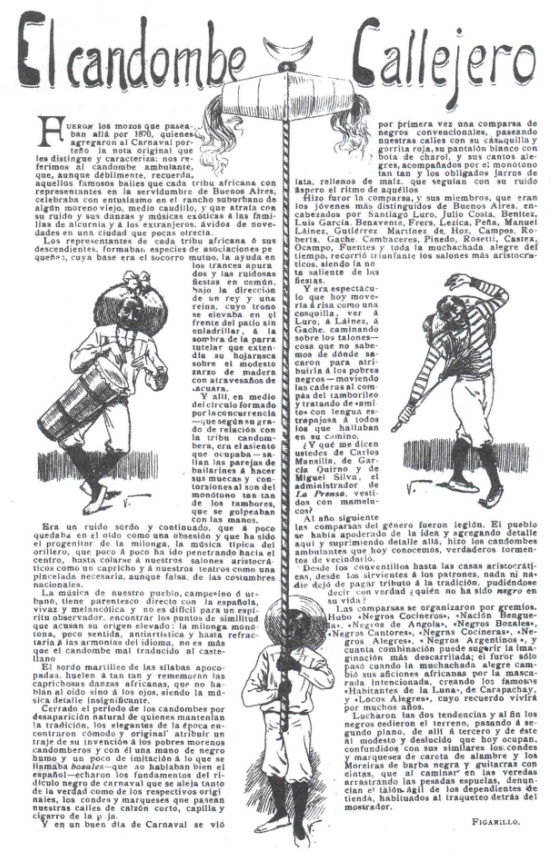 Drawing a giant masacalla in the article "The candombe street" of Figarillo. Newspaper Caras y Caretas, February 11, 1899. Buenos Aires, s / p.